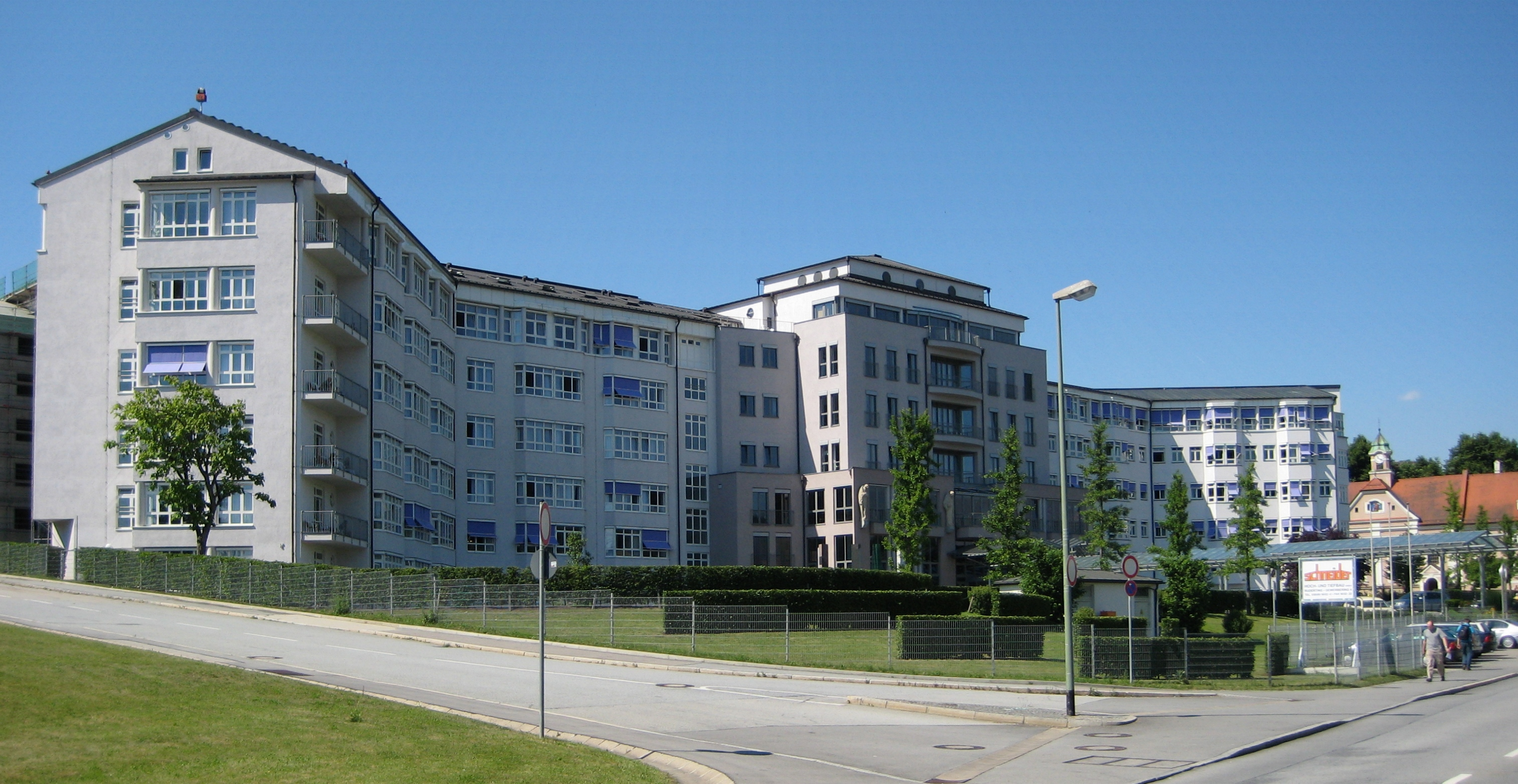 Clinical centre, Passau